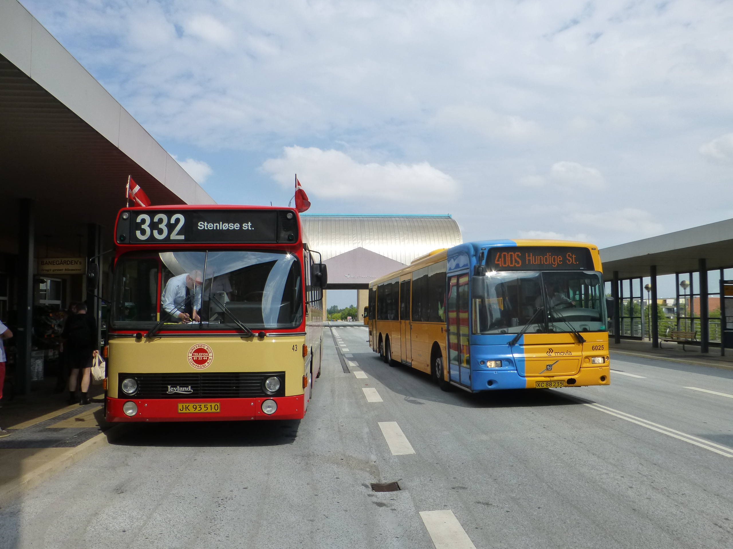 Birkerød Bus Compagni 43 at Høje Taastrup Station in Denmark. The bus belongs to Sporvejsmuseet Skjoldenæsholm. The bus at the right is an ordinary bus on line 400S.